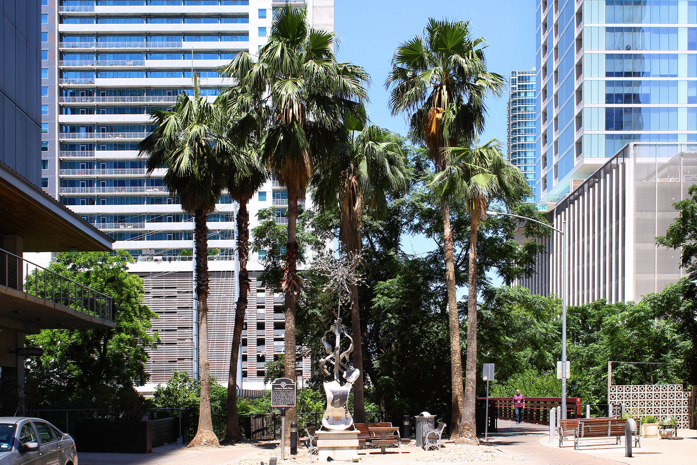 Margaret Moser Plaza in Austin, Texas, United States.